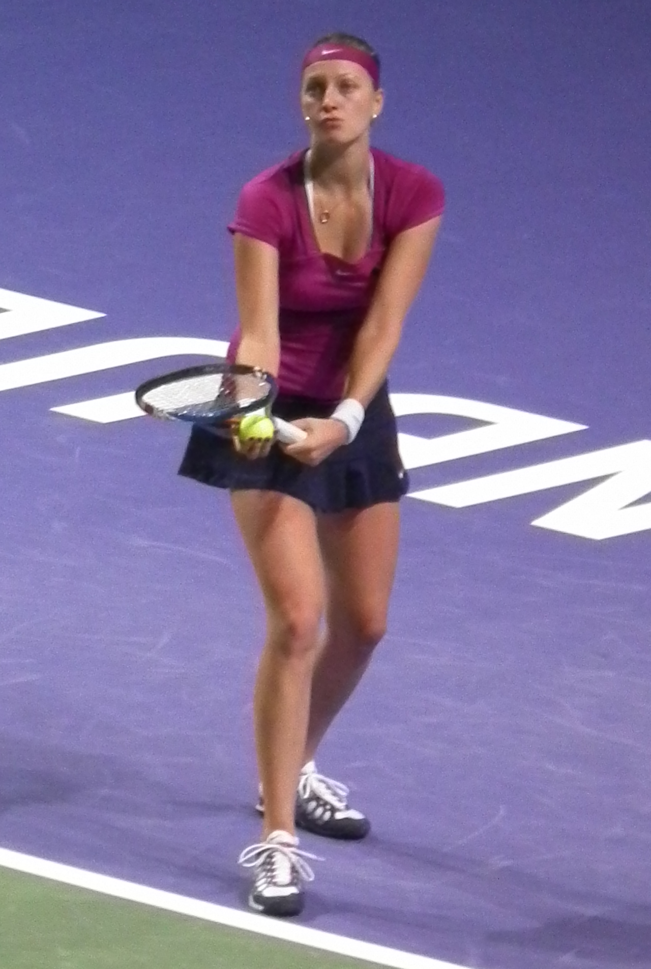 Petra Kvitová at the 2011 WTA Tour Championships, Istanbul